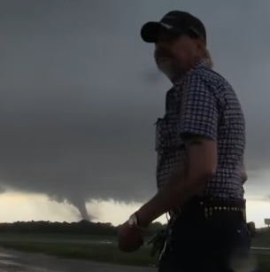 Tornado touching down just 3 miles way from The Greater Wynnewood Exotic Animal Park and its all caught on camera. Joe Exotic reporting on scene.